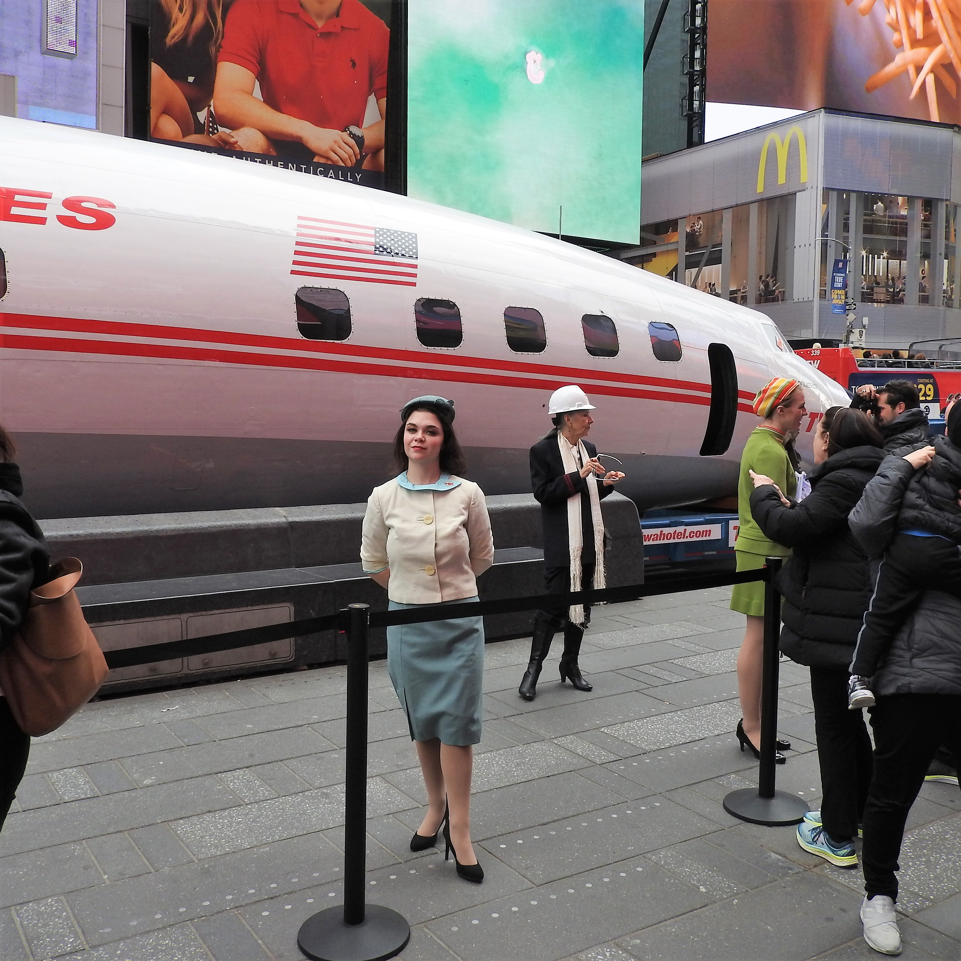 Looking southeast at model in TWA stewardess uniform